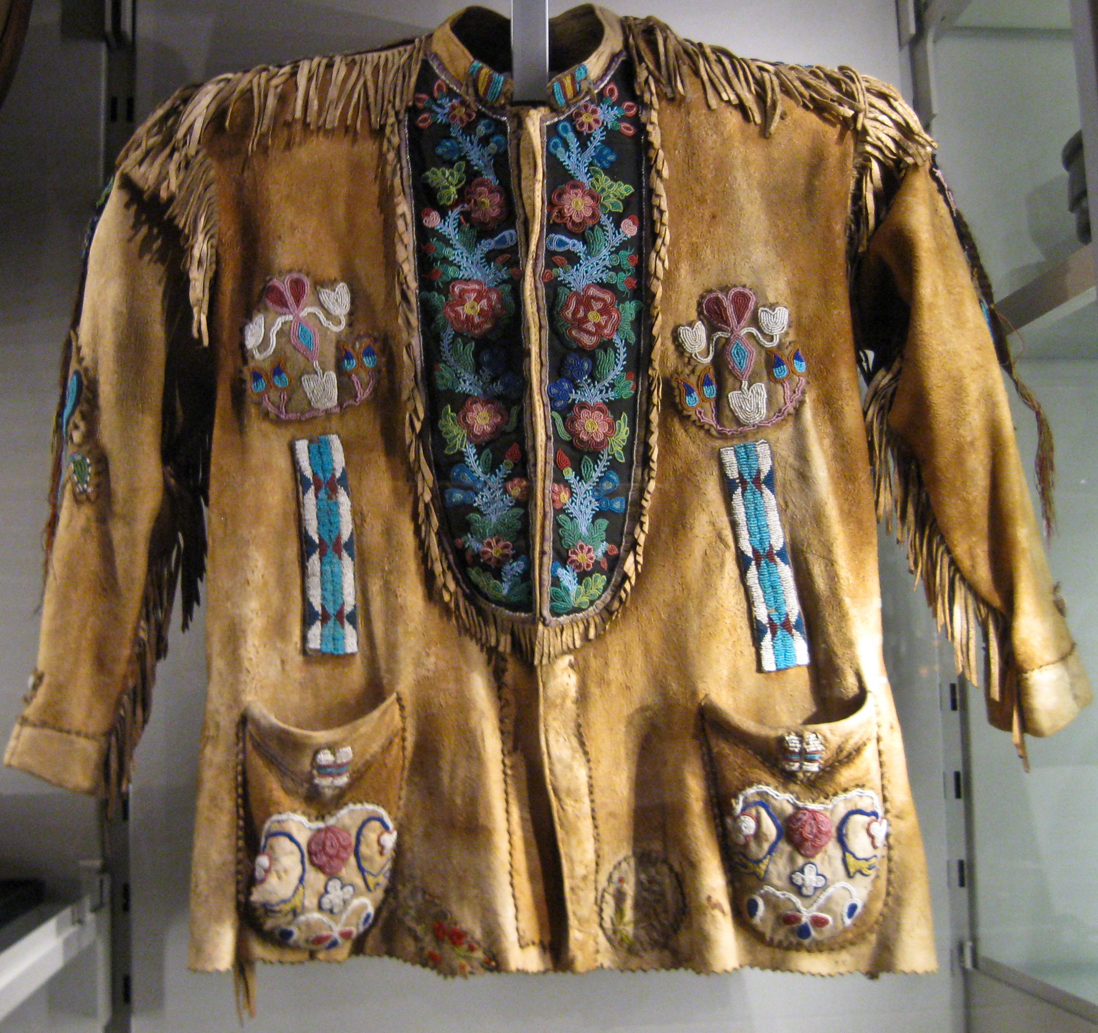 This is a traditional Native Subarctic American shirt. It is today placed on permanent display within the collection of UBC's Museum of Anthropology in Vancouver, Canada.